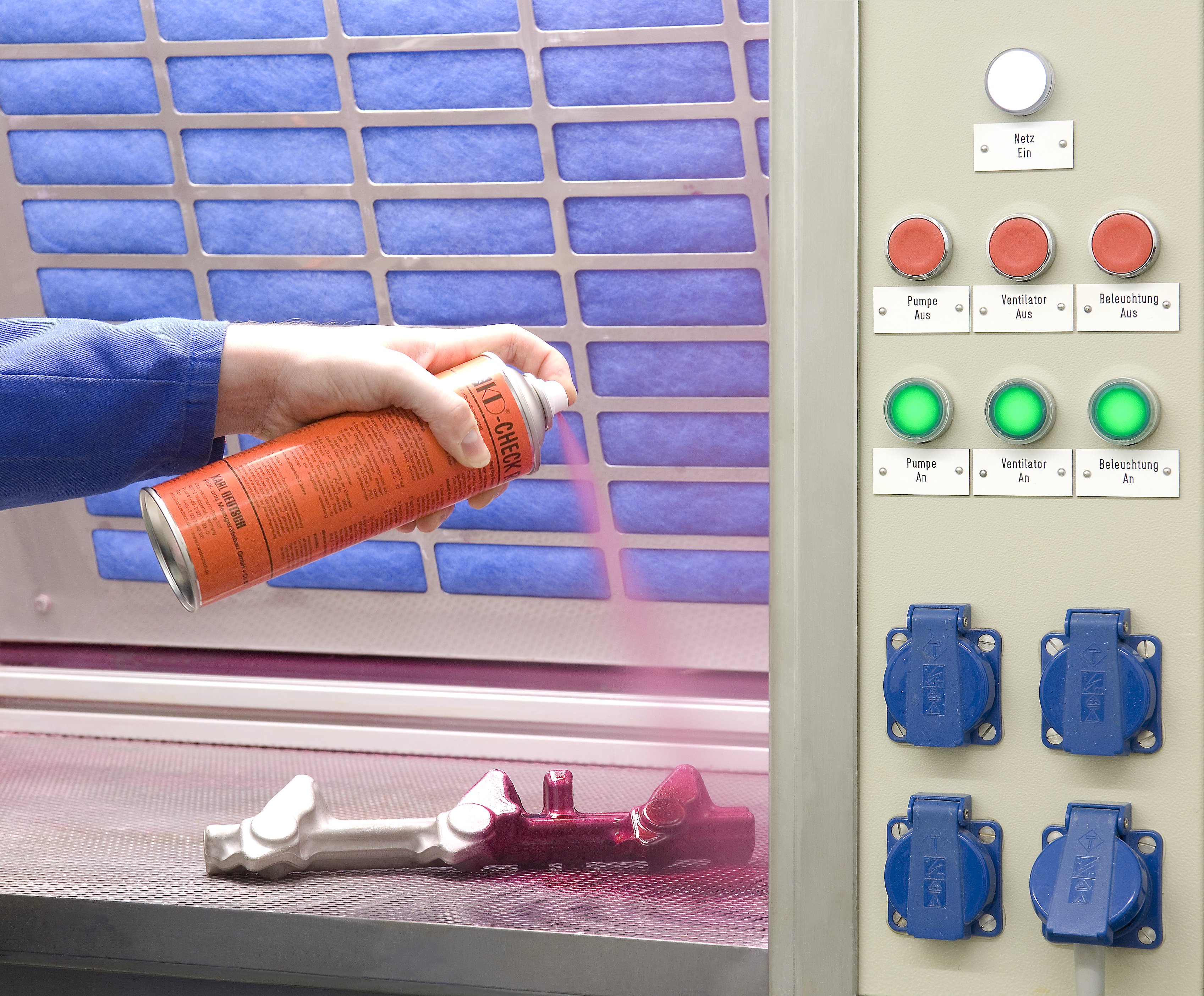 Example: Spraying of the penetrant test liquid